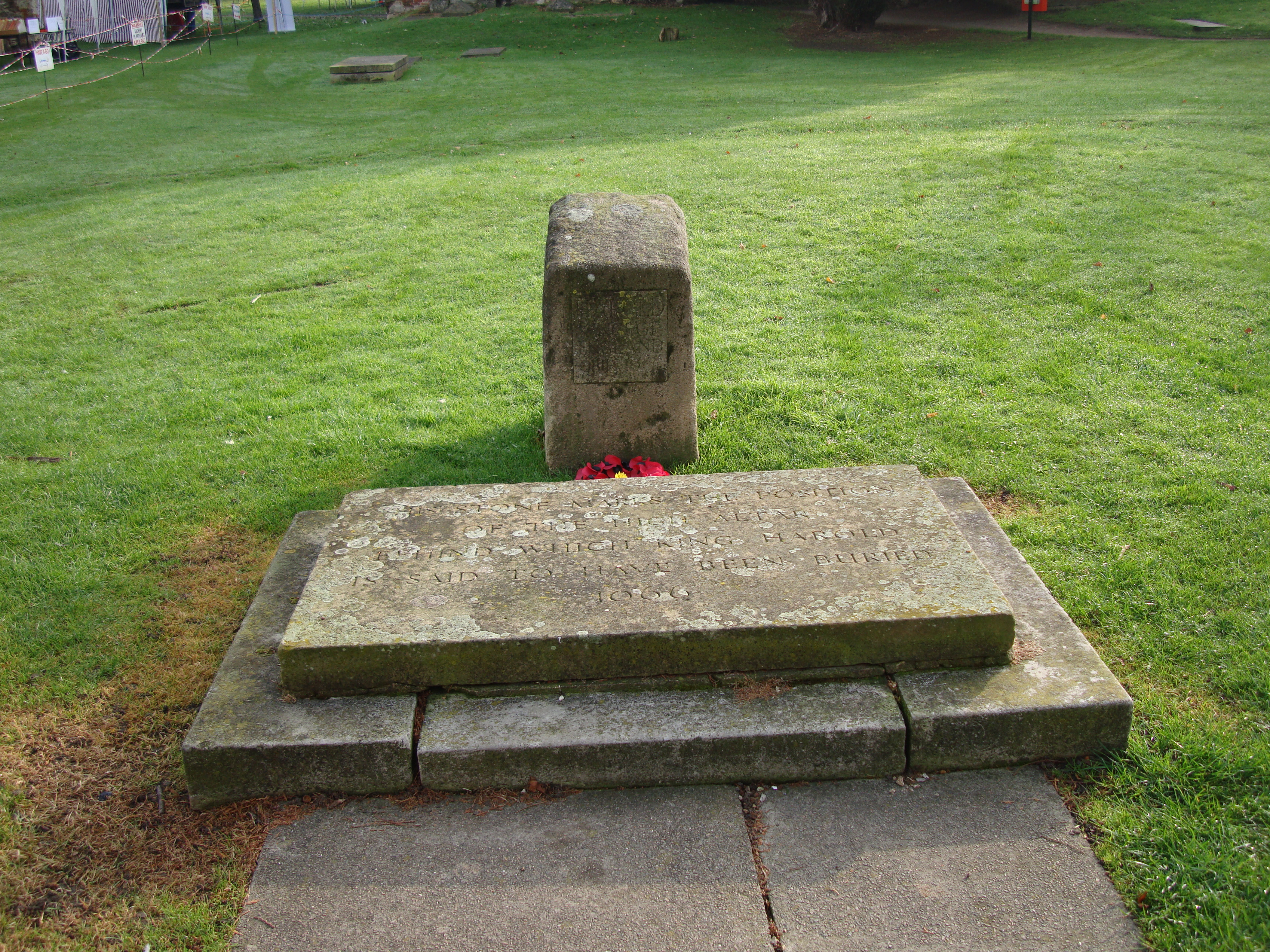 Photograph of the reputed tomb of King Harold II, Waltham Abbey, Essex, England, taken and uploaded on King Harold Day, 11 October, 2008